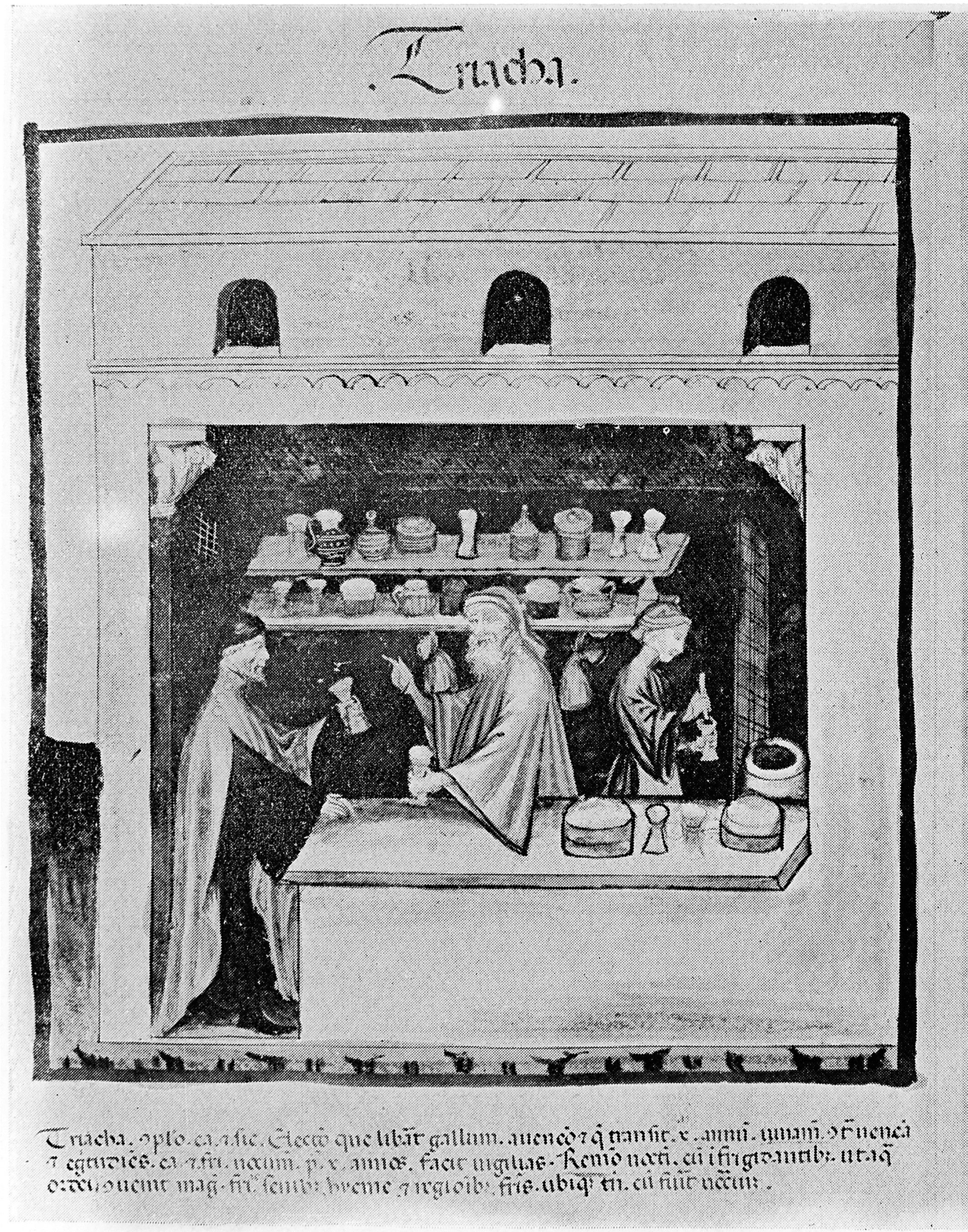 M0004105 Albucasis, Tacuinum Sanitatis: Miniatures Credit: Wellcome Library, London. Wellcome Images Miniatures from the Vienna Manuscript of Tacuinum Sanitatis works of the Arab Physician Albucasis Miniature Published: - Copyrighted work available under Creative Commons Attribution only licence CC BY 4.0